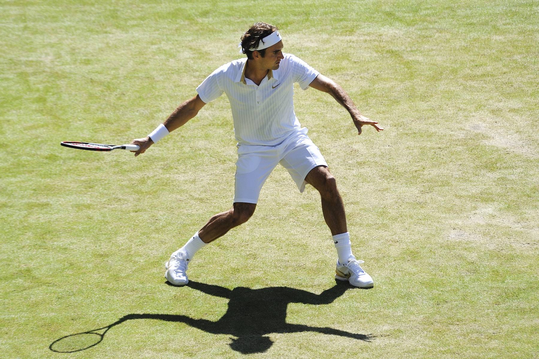 Roger Federer against Guillermo García-López in the 2009 Wimbledon Championships second round